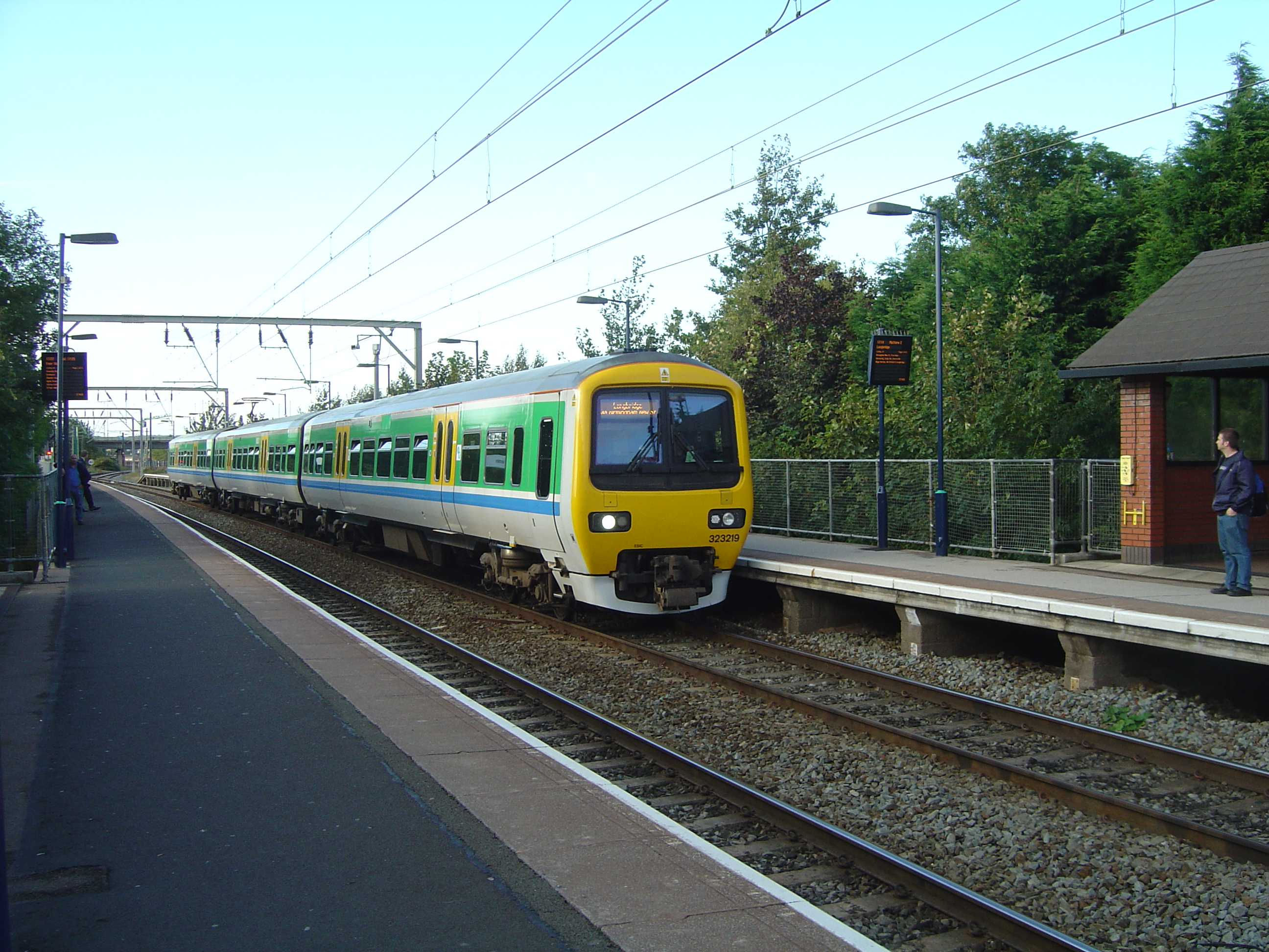 British Rail Class 323 No. 323219 at Aston railway station